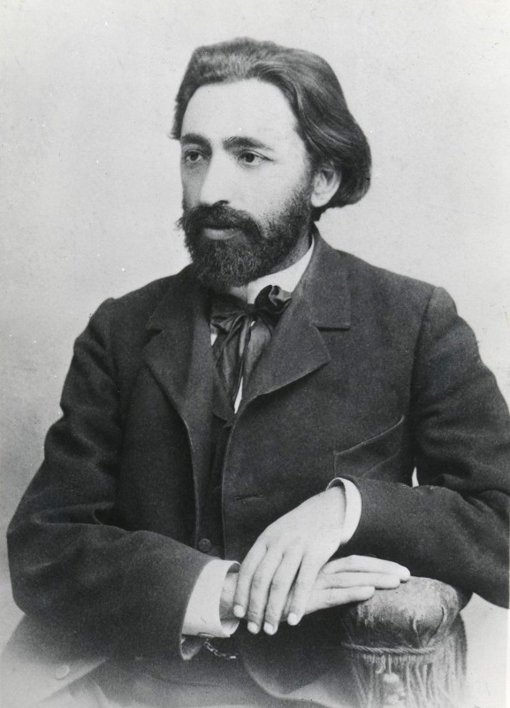 Picture of an armenian writer Vrtanes Papazian (1866–1920)― Վրթանես Փափազյանի նկարը